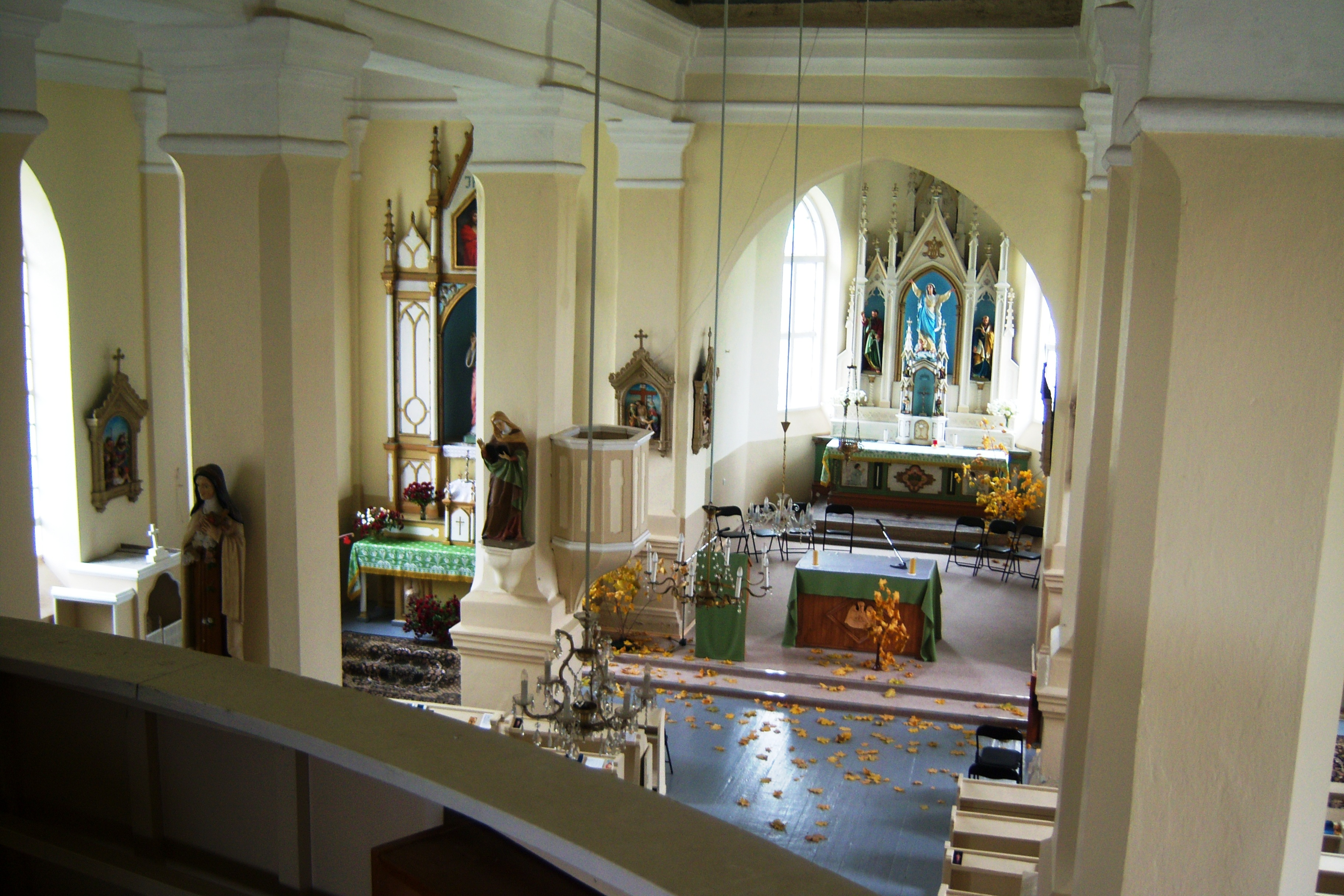 Pakuonis, church interior, Prienai District. Lithuania